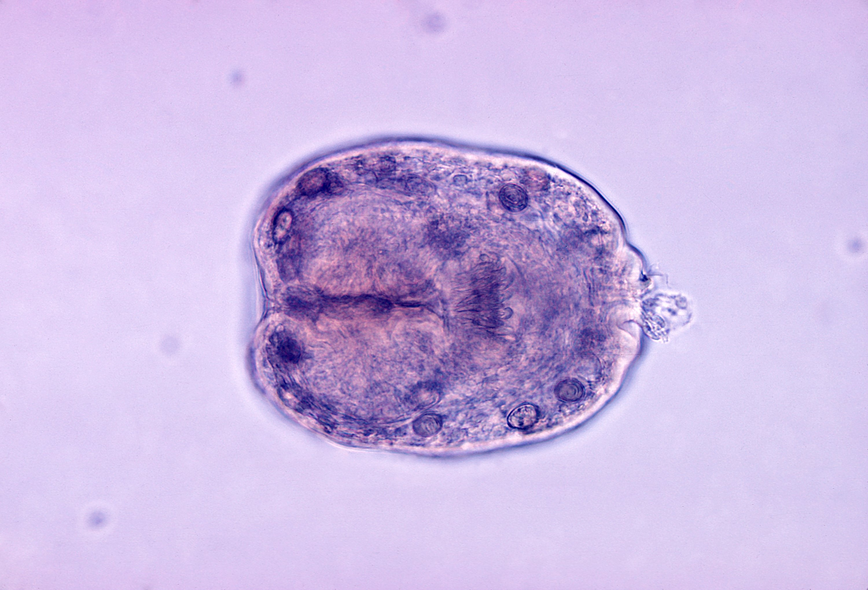 Protoscolex of Echinococcus granulosus from hydatid cyst. Parasite.